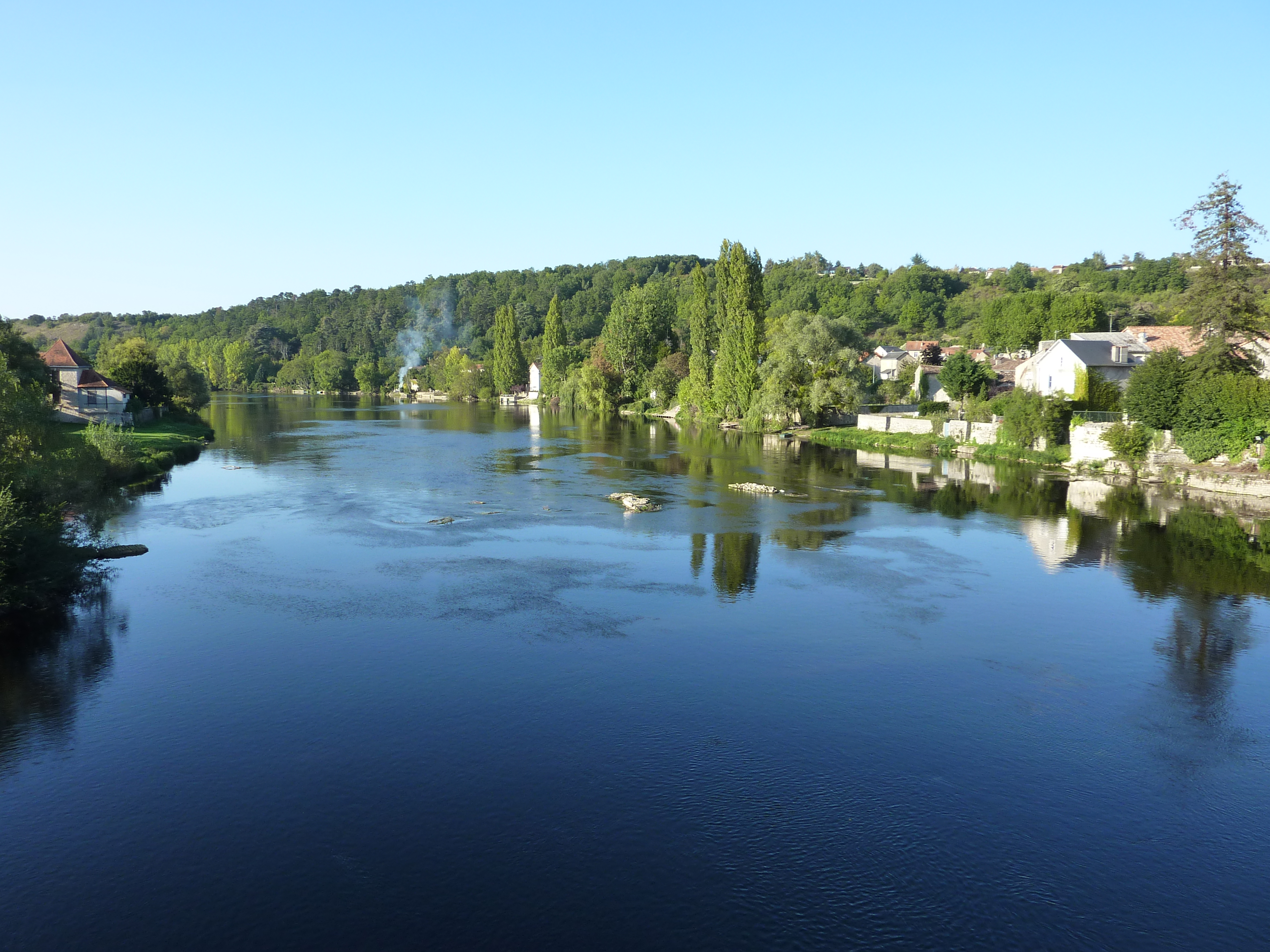 River Vienne in Chauvigny (France)